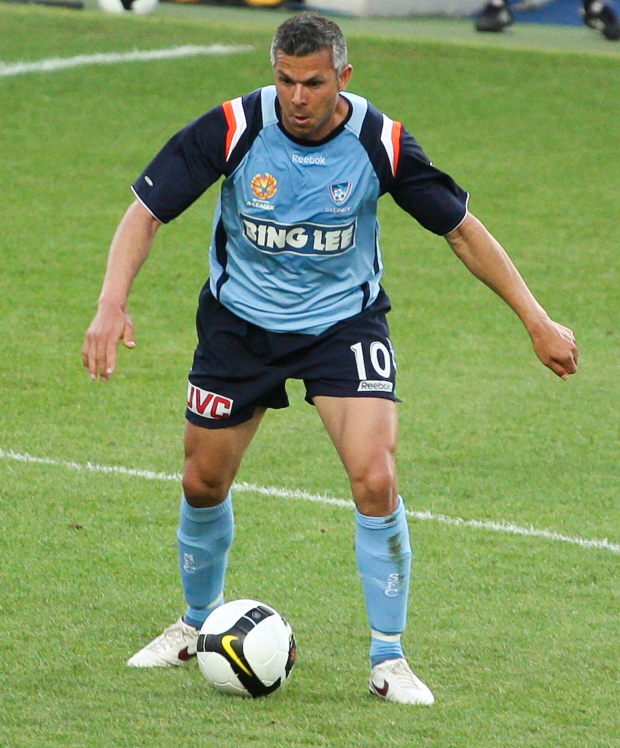 Steve Corica playing against Adelaide United at the Sydney Football Stadium in the A-League round 5.